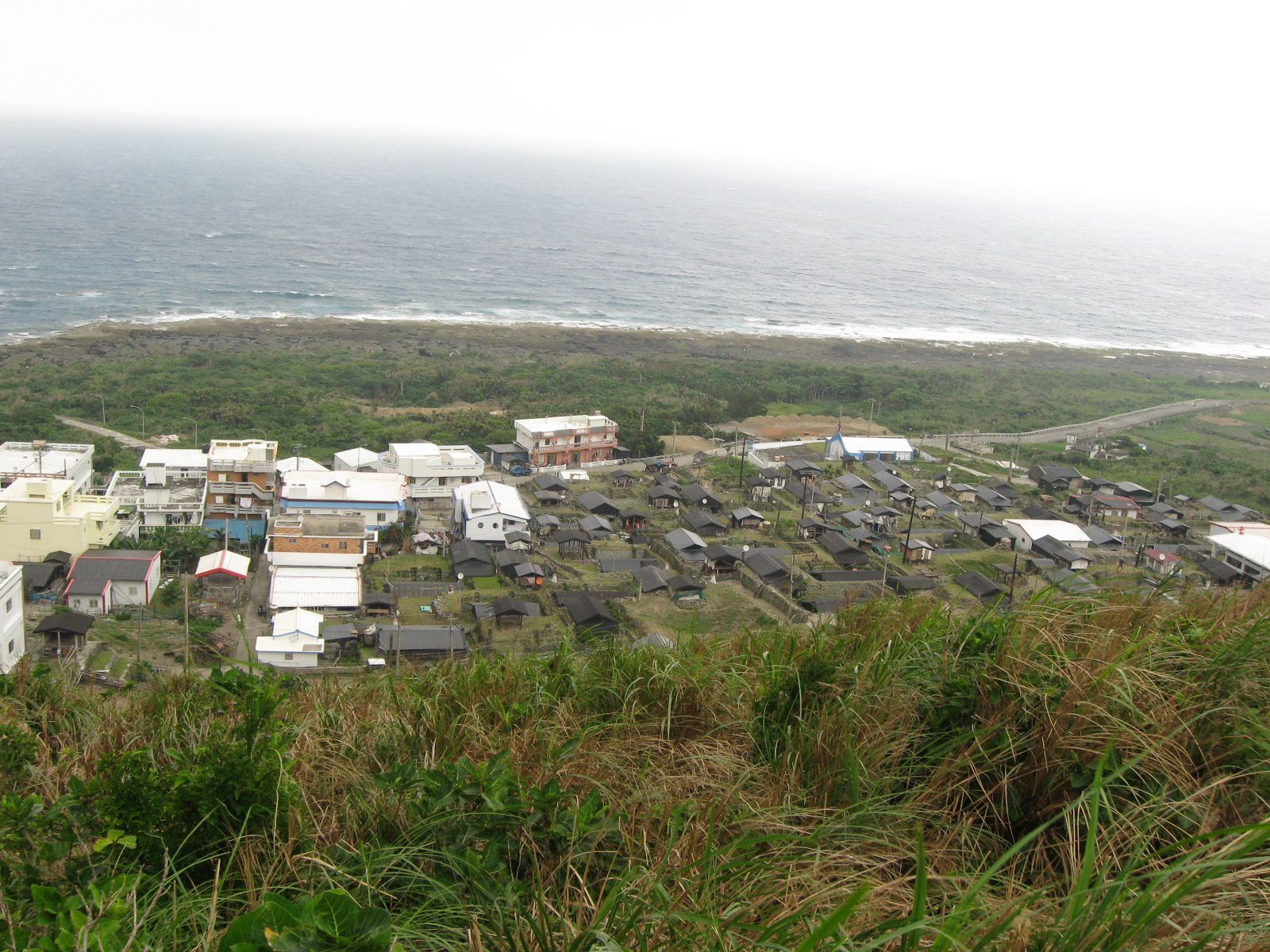 View of part of the Ivalino (野銀) village from a nearby hillside. Housing on the right are traditional-style while those on the left are not.